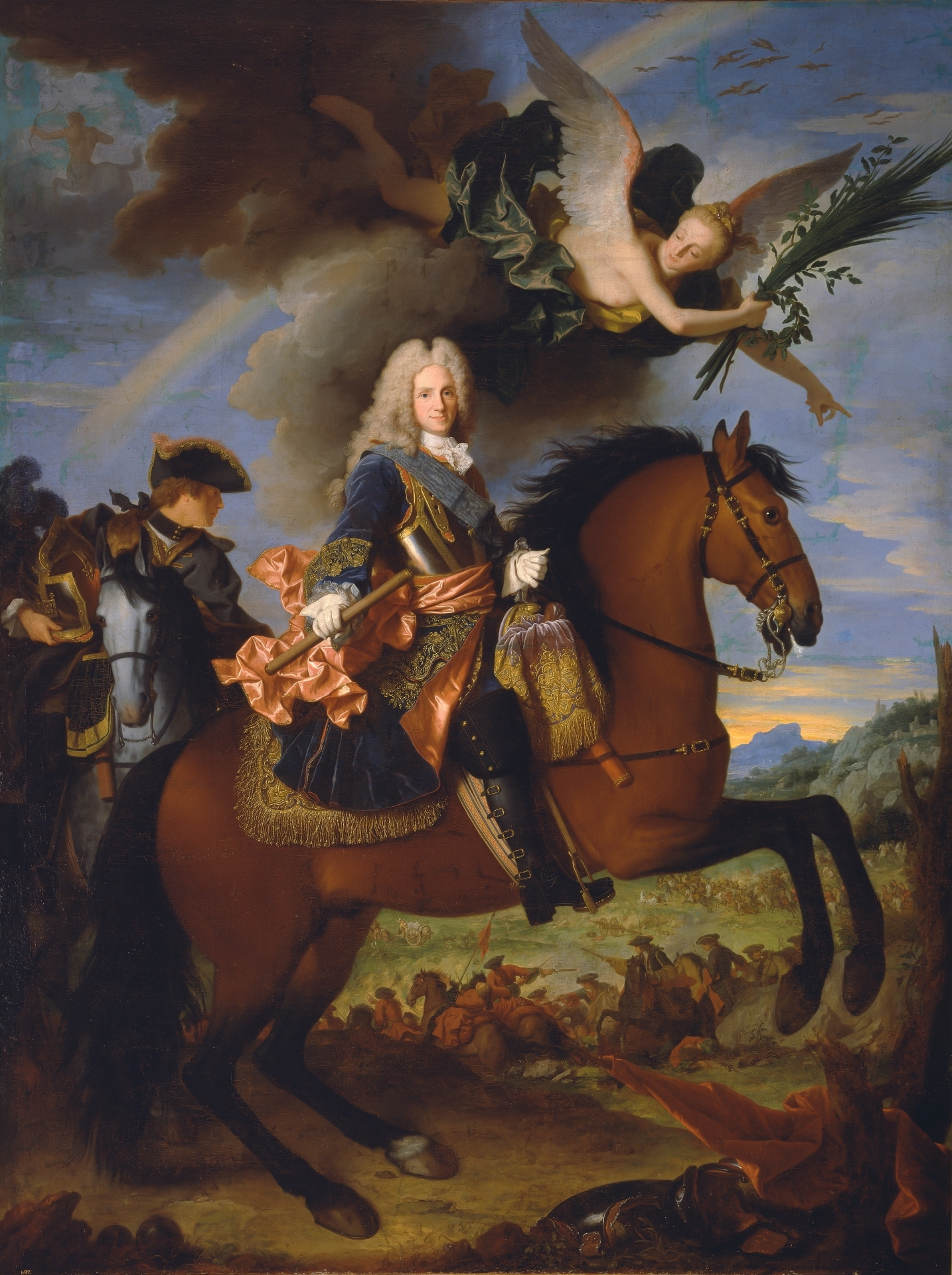 Philip V of Spain (19 December 1683 - 9 July 1746), born Philippe de France, fils de France and duc d'Anjou, was king of Spain from 1700 to 1724 and from 1724 to 1746, the first of the Bourbon dynasty in Spain. Philip was the second son of Louis, le Grand Dauphin and Maria Anna of Bavaria,[1] known as Dauphine Victoire. He was a younger brother of Louis, duc de Bourgogne and an uncle of Louis XV of France.